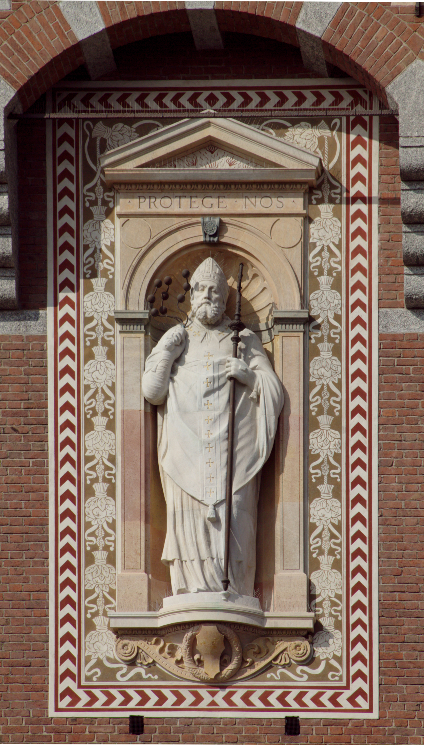 Castello Sforzesco (Milan)